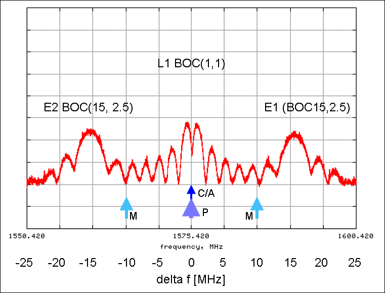 GNSS First Galileo signal in L1-frequency range, transmitted by test satellite Giove-A in Jan 2006. Arrows indicate GPS frequencies. Signal curve received by curtesy of ESA including the permission of publication. Preparation of diagram by Dantor.